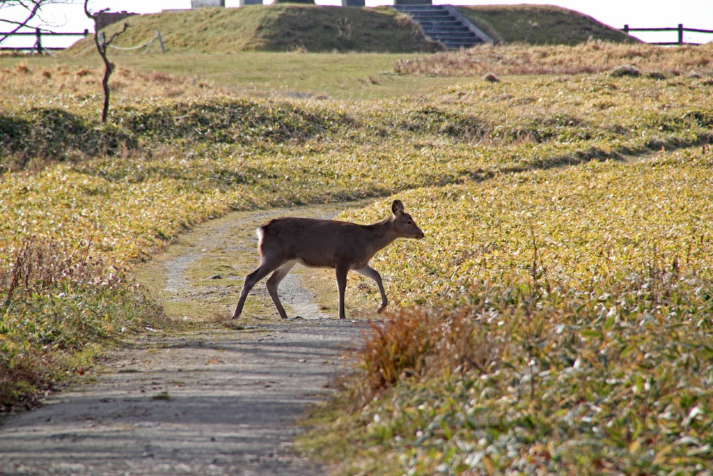 Cervus nippon yesoensis in the Aininkappu Promontory, Akkeshi, Hokkaidō.